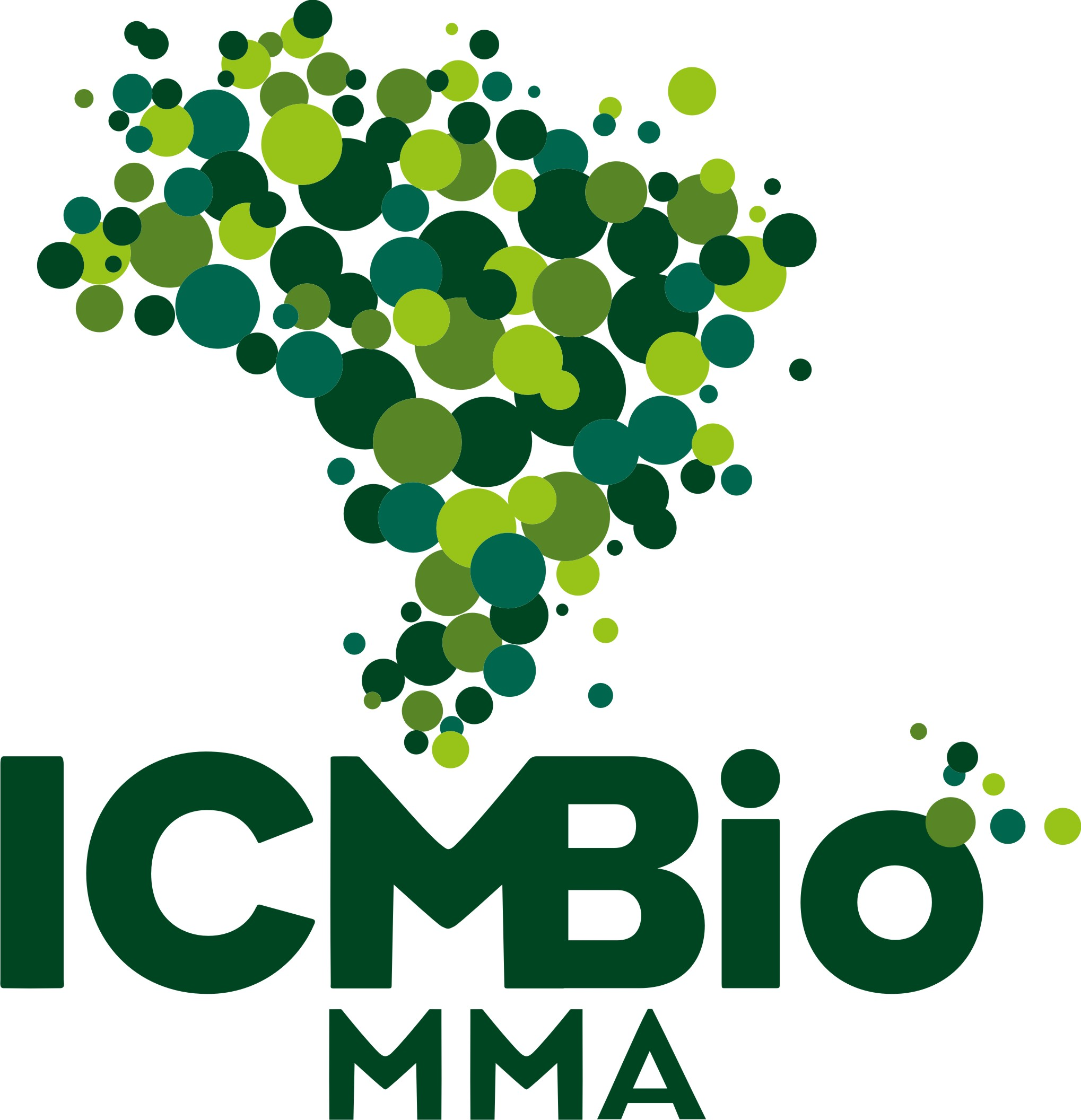 Symbol of Instituto Chico Mendes de Conservação da Biodiversidade - ICMBio